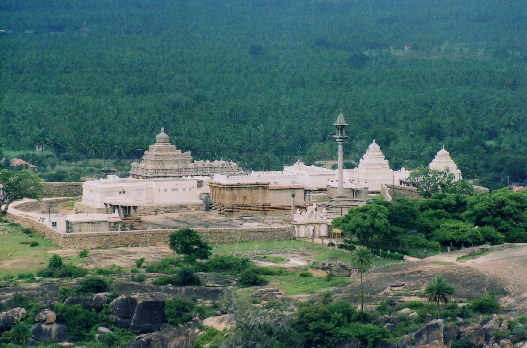 This photograph of the Chandragiri hill Jain temple complex as seen from the Vindyagiri hill in Shravanabelagola, Hassan district, Karnataka state, India was taken by self (Dinesh Kannambadi)